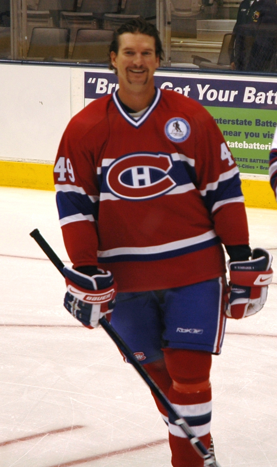 Brian Savage played with Montreal Canadiens Alumni at the Legends Clasic in Toronto